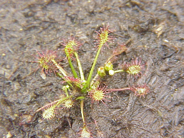 Species: Drosera intermedia Family: Droseraceae Image No. 2